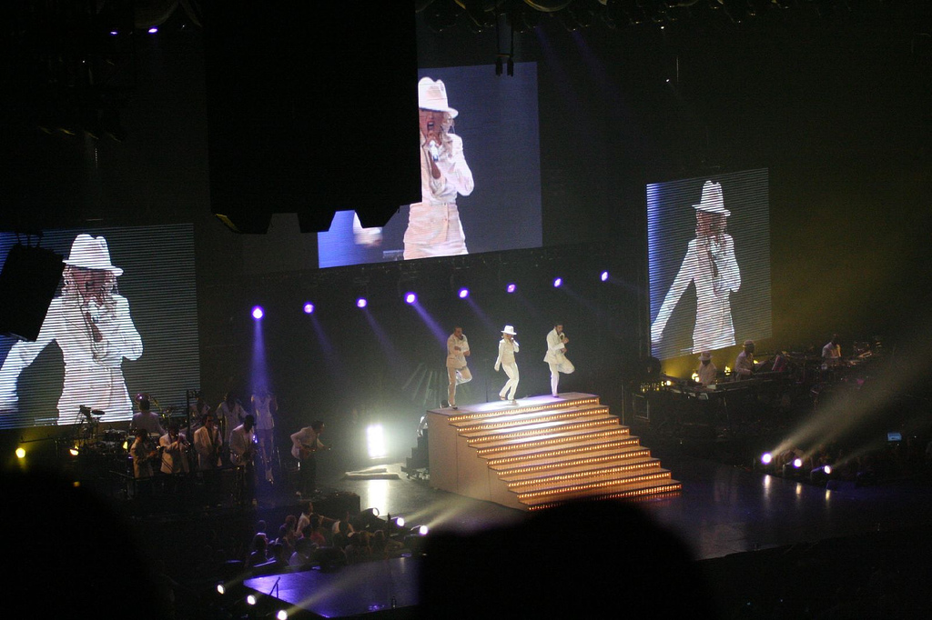 Christina Aguilera performing "Ain't No Other Man" during the "Back to Basics Tour"